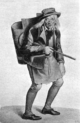 Ferdinand Raimund as Aschenmann in „Der Bauer als Millionär“